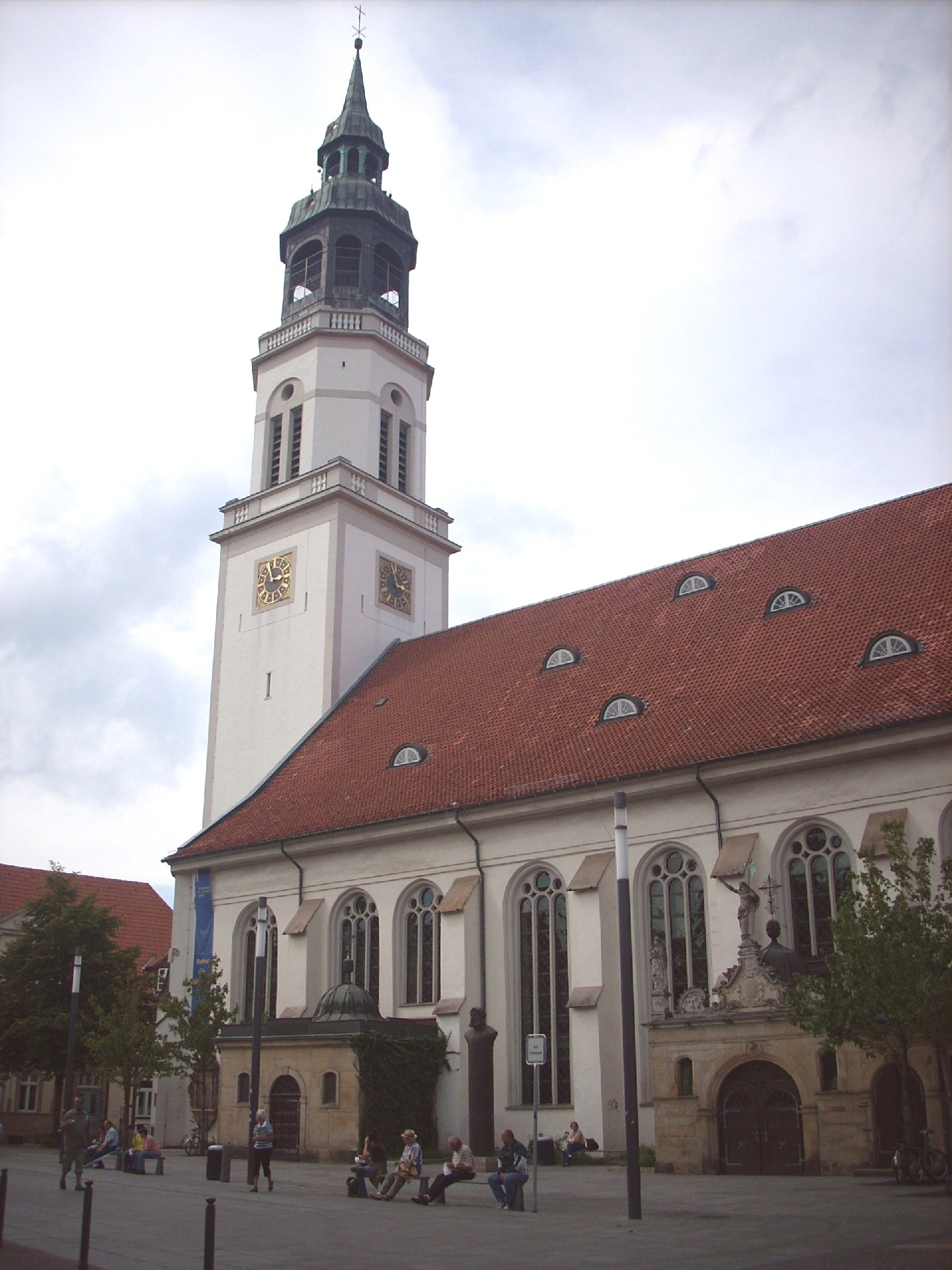 Celle, Lutheran Church